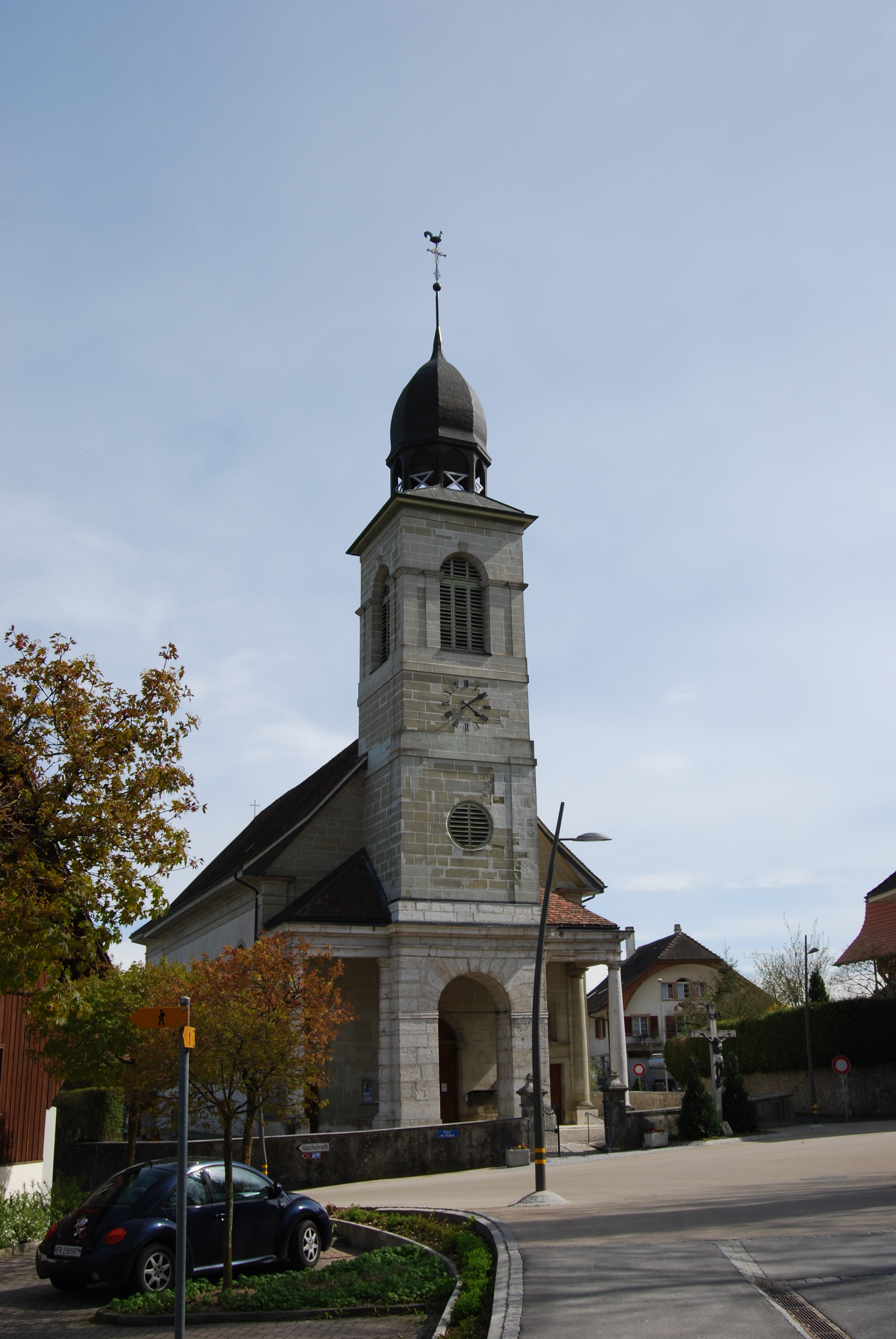 Catholic Church of Cressier, canton of Fribourg, Switzerland